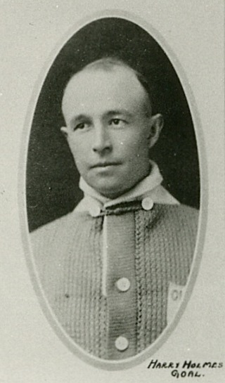 Harry "Hap" Holmes of the Toronto Arenas hockey club ca. 1917–1918